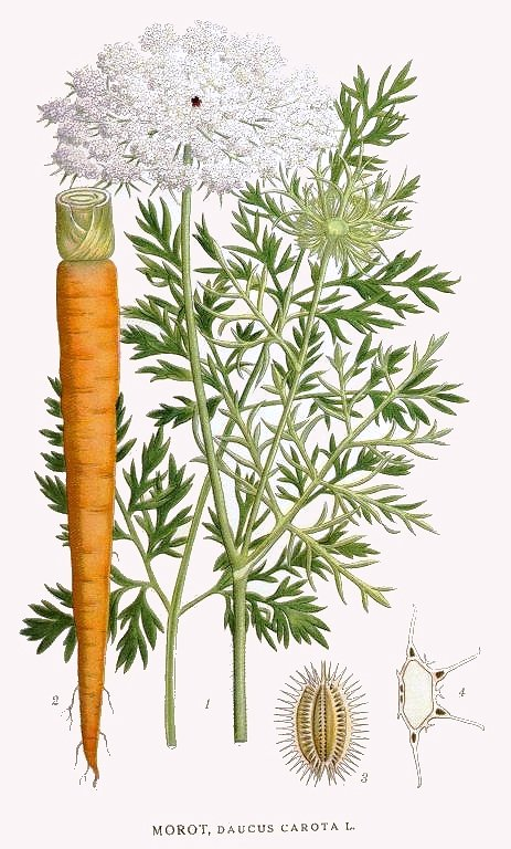 Original Description Morot, Daucus carota L. (cleaned)